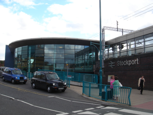 Main entrance of Stockport railway station.